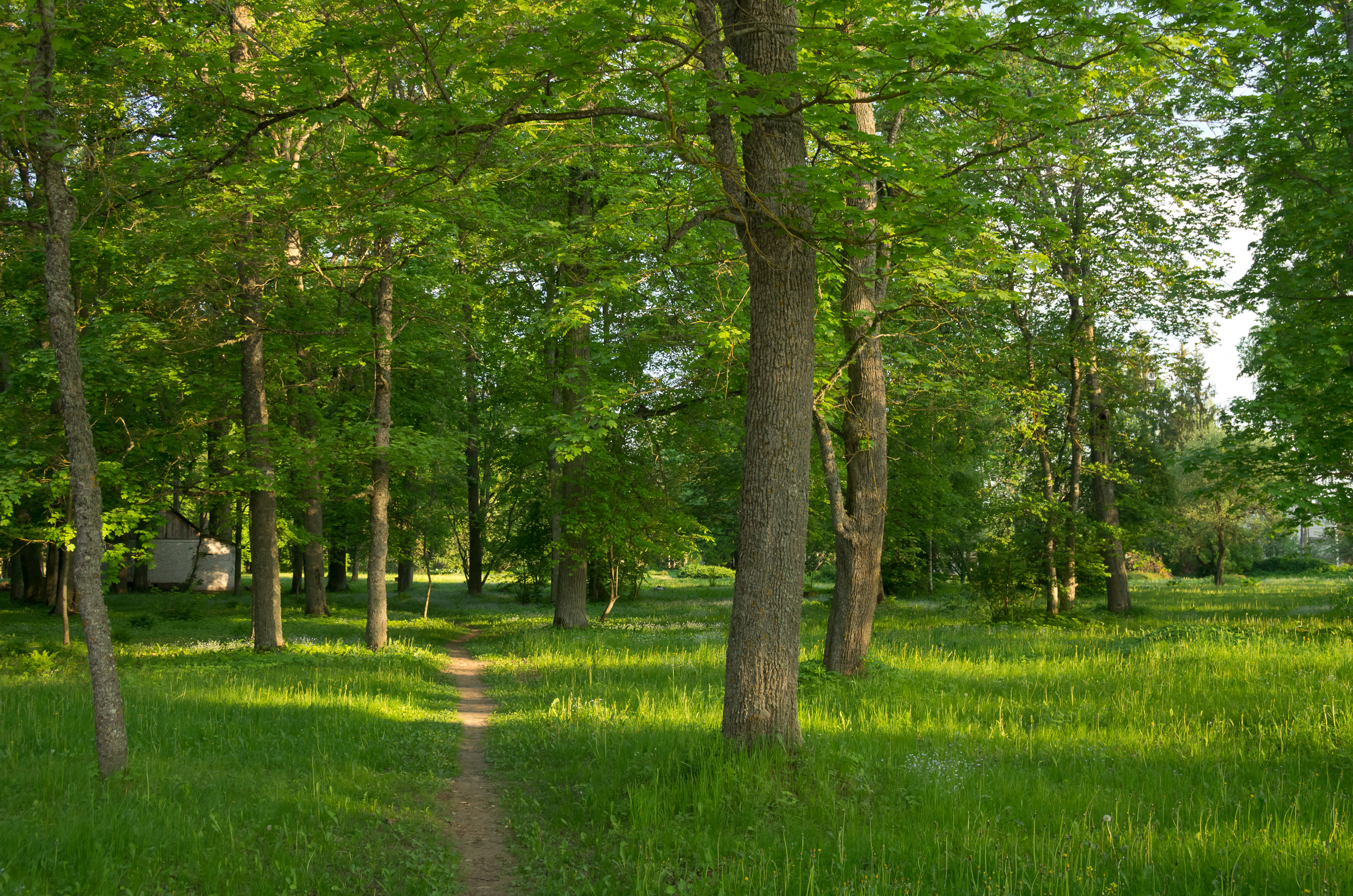 Ahja Manor park